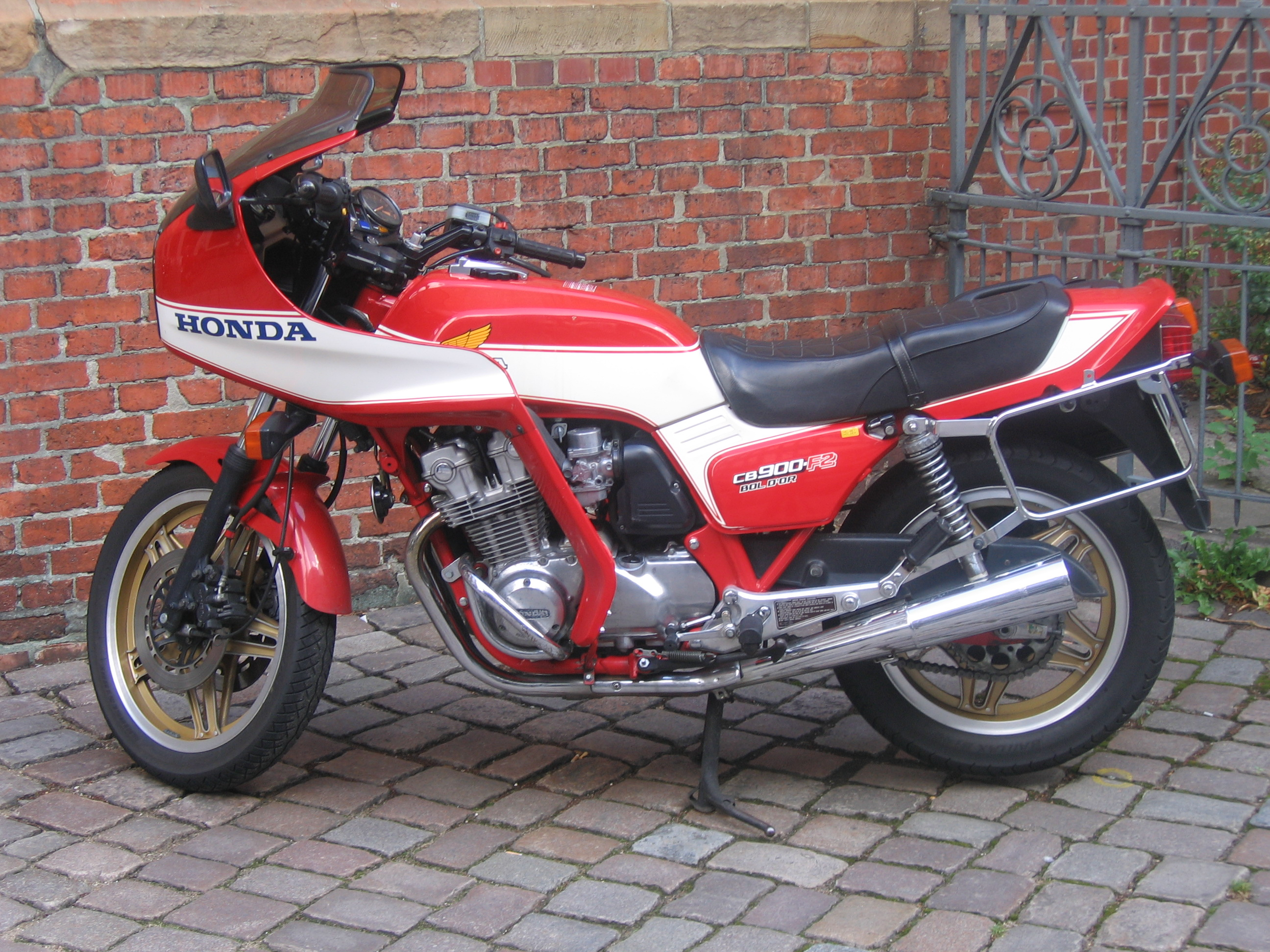 Honda CB 900 F2 Bol d'Or